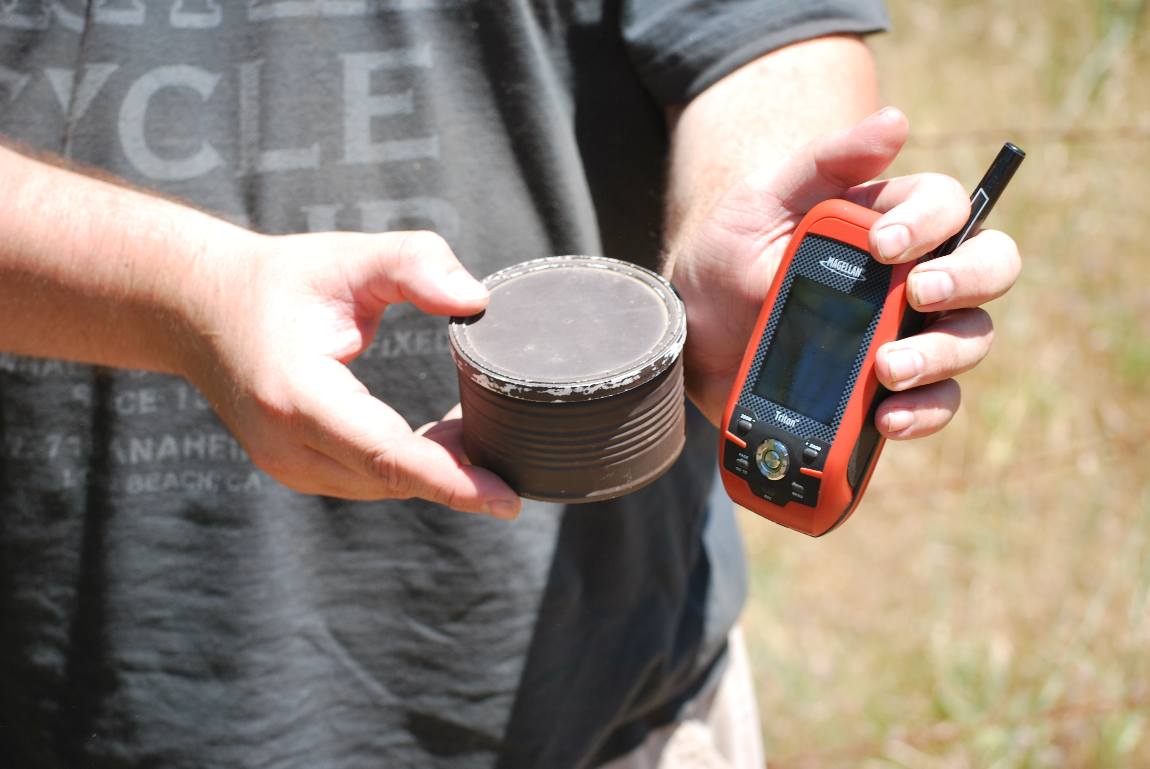 A typical "small" geocache container and the GPSr used to find it.